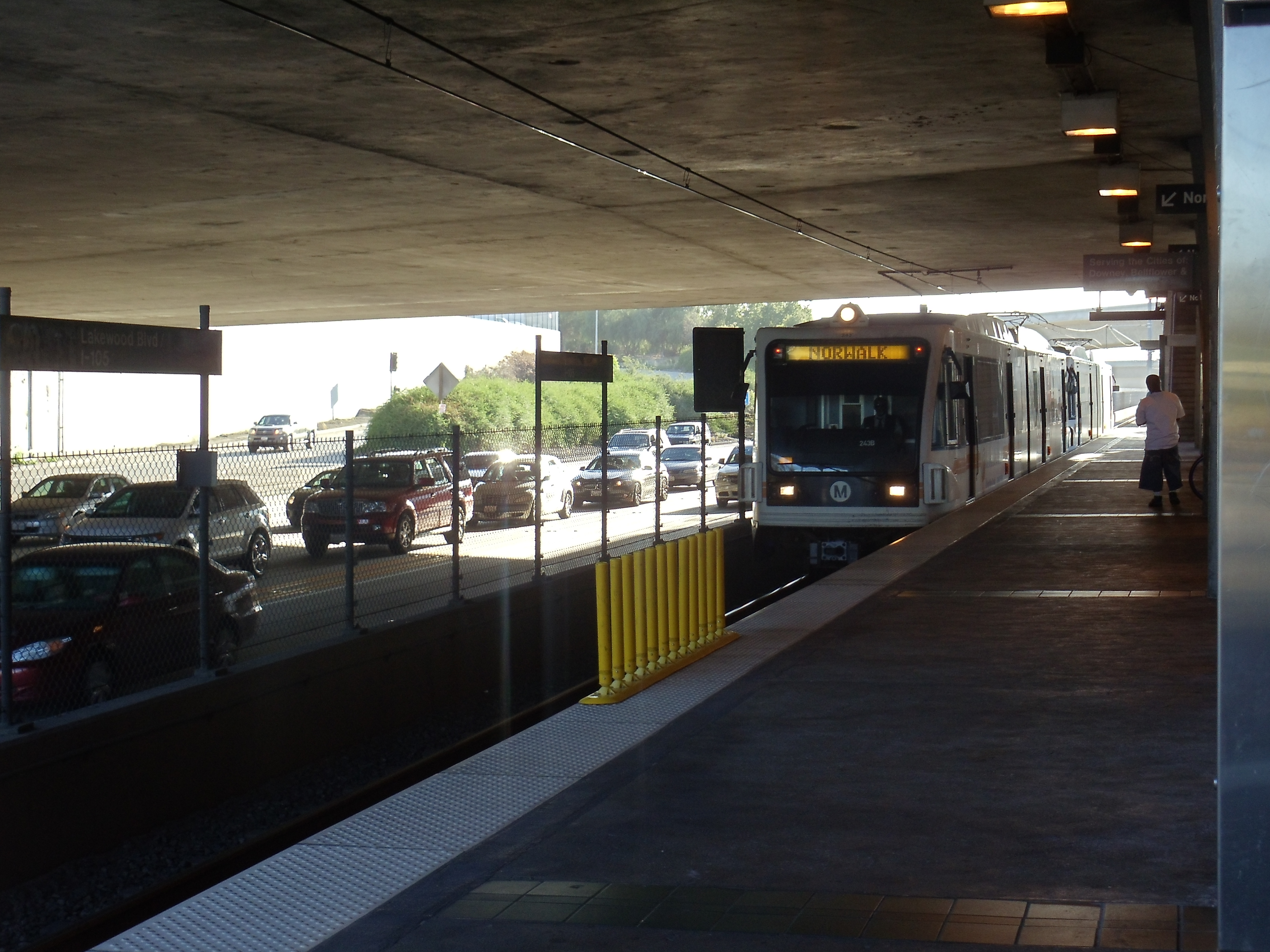 Eastbound Metro Green Line train to Norwalk Station arrives at Lakewood Station.